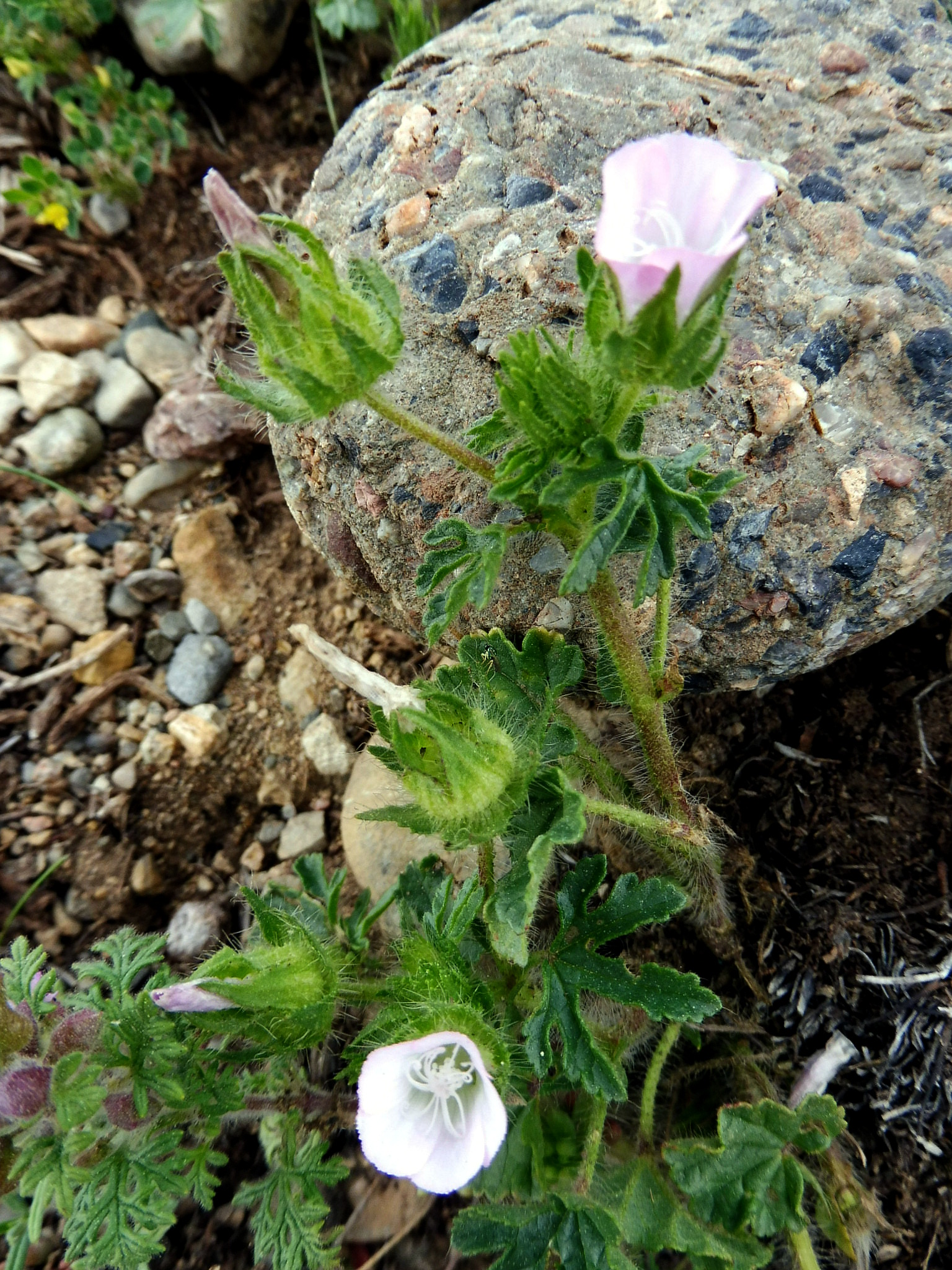 Althaea hirsuta. In serrat de Sòbol (Solsonès -Catalunya). To 1.270 m altitude This is a a photo of a natural area in Catalonia, Spain, with id: ES510197